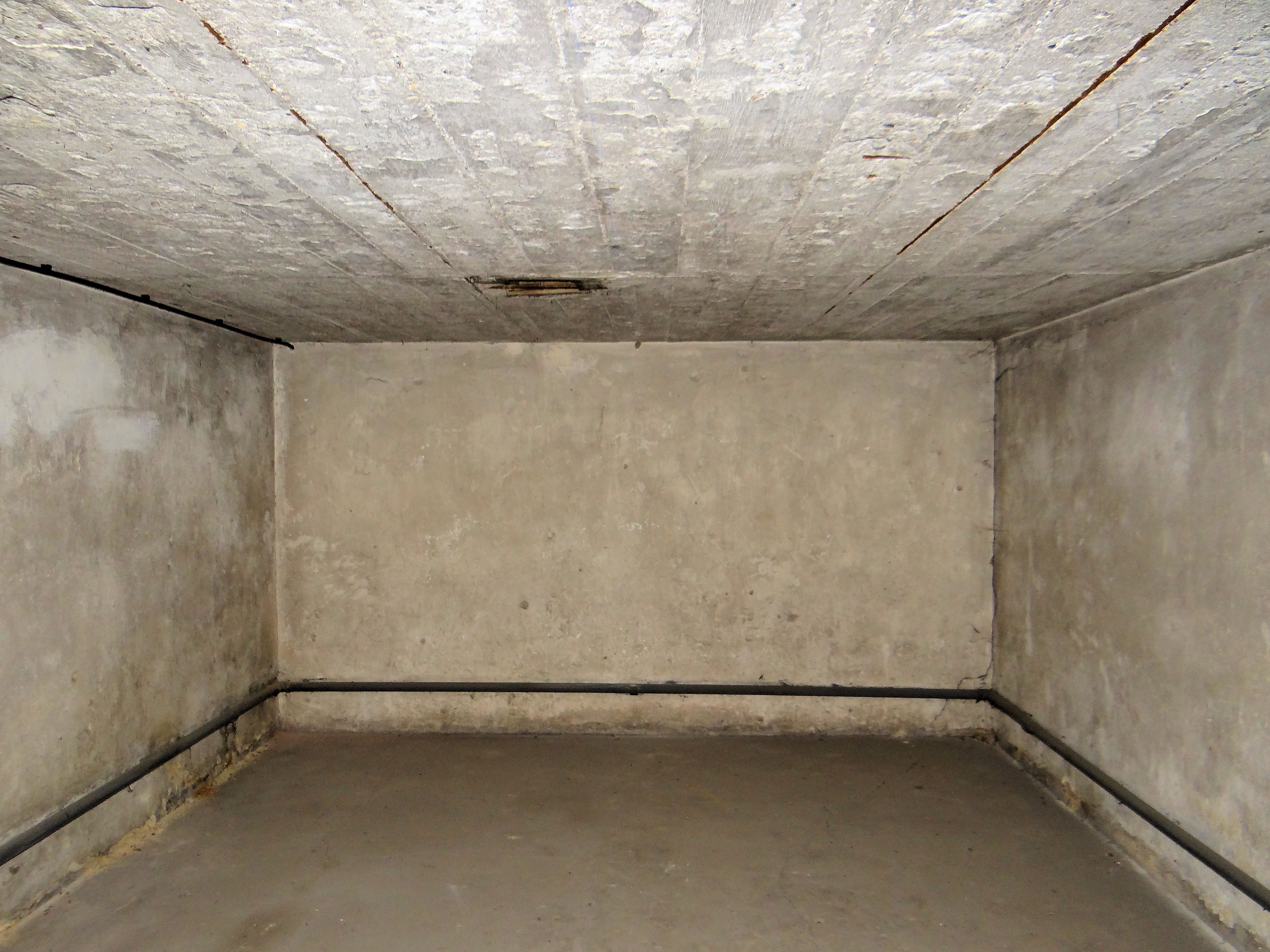 KL Majdanek Baths and Gas Chamber